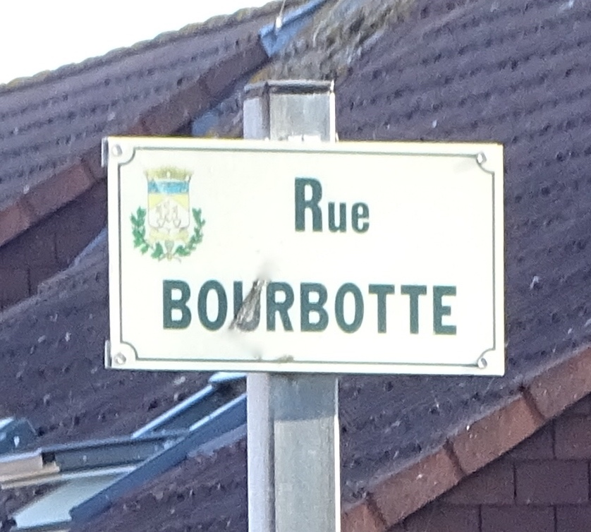 François Bourbotte street (Loison sous Lens)